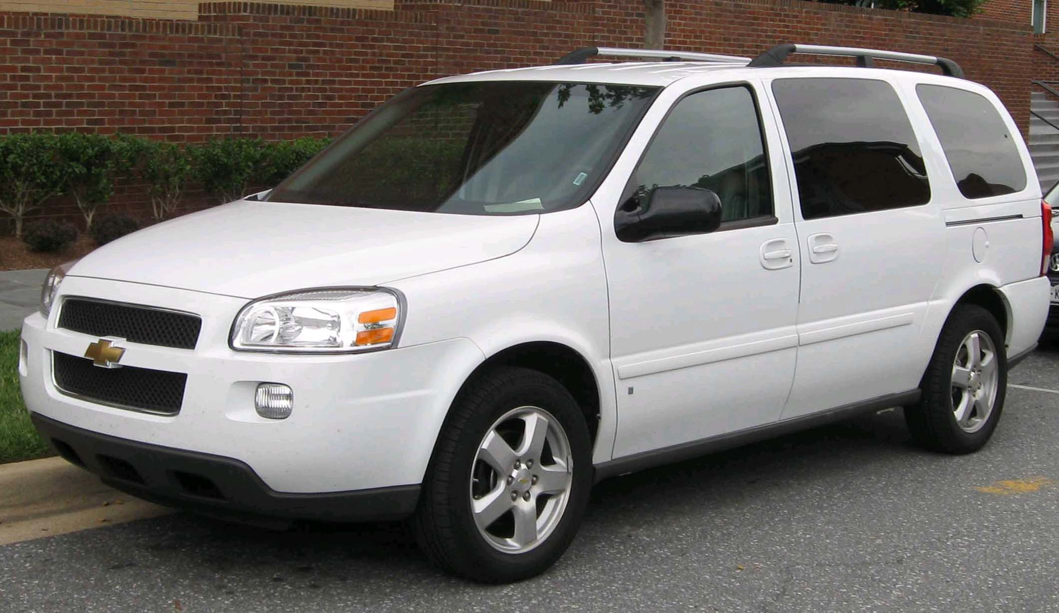 2005-2008 Chevrolet Uplander photographed in College Park, Maryland, USA.